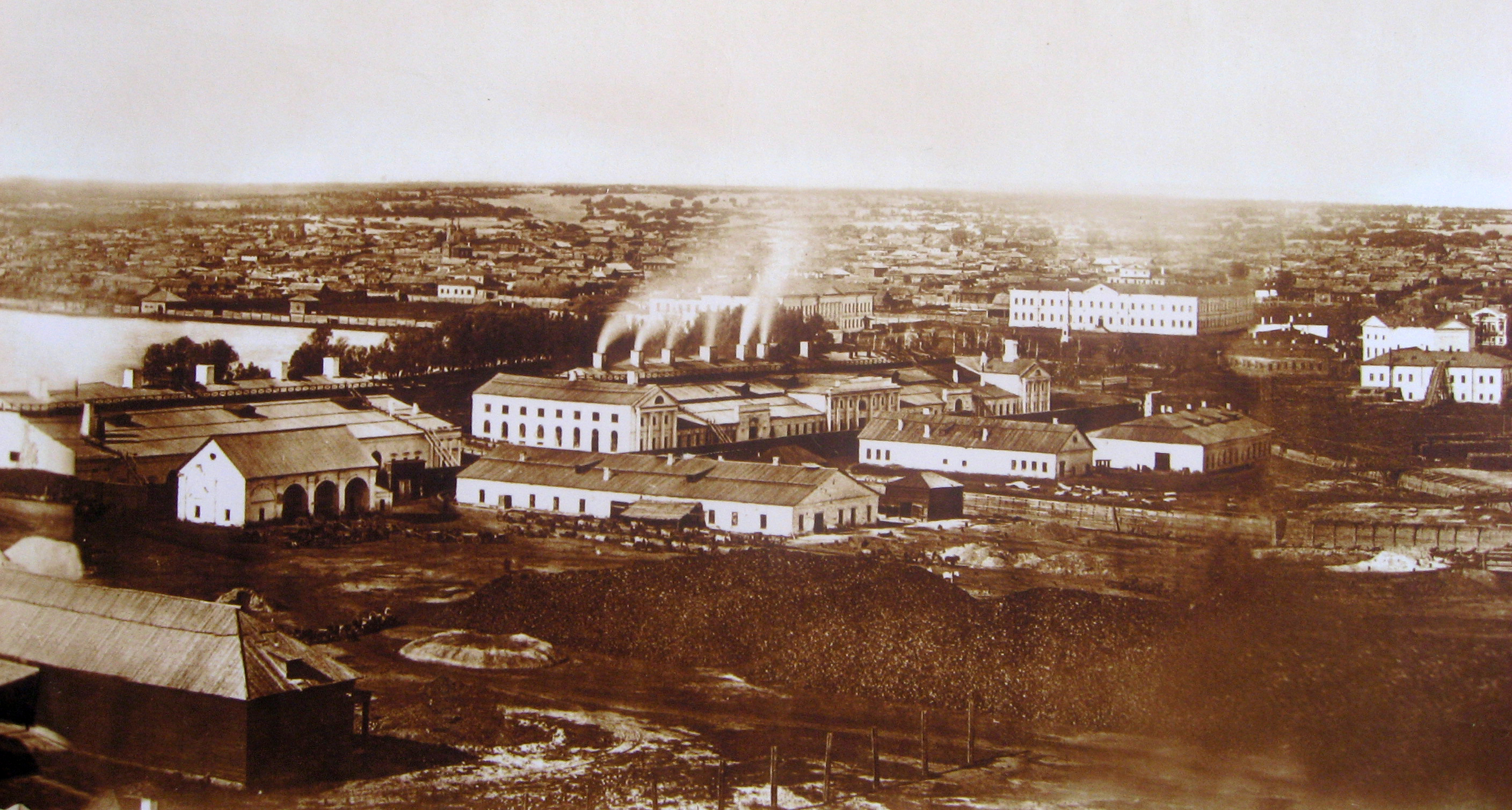 Copper smelting factory in Barnaul, 1850